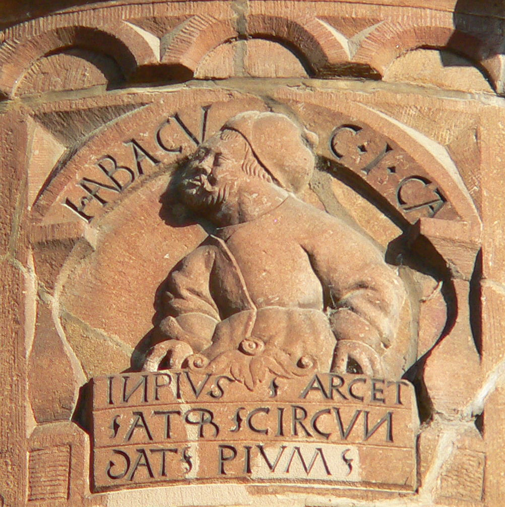 Prophet Habakuk on the "Käthchenhaus" of Heilbronn/Germany